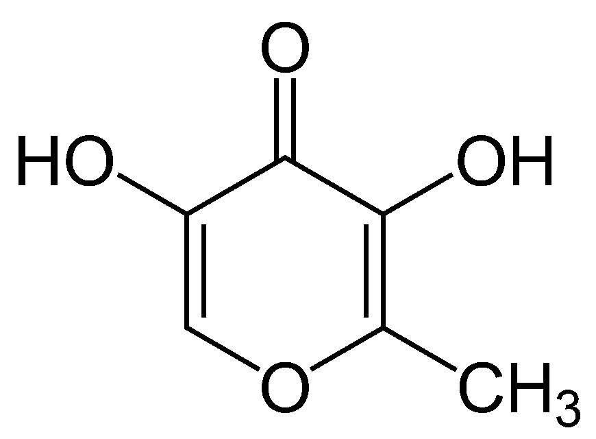 Chemical structure of 5-hydroxymaltol